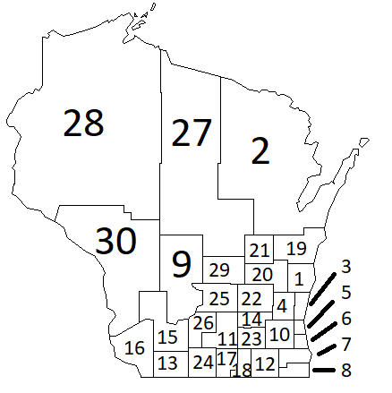 Wisconsin Senate Districts as drawn by 1856 Wisconsin Act 109 In effect for elections from 1856...